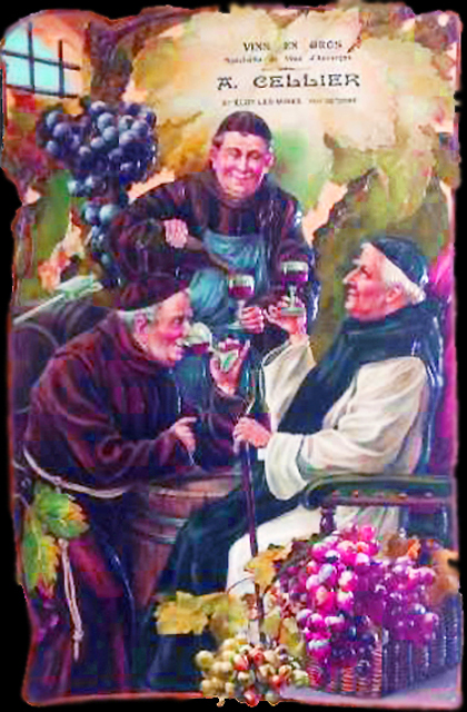 Auvergne wine merchant poster earl XXe